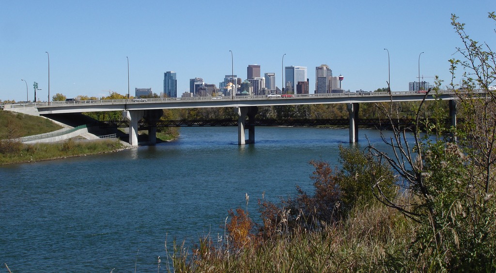 Photograph by Kevin Saff ( The Bow River at Calgary, 24 September 2005. From Creative Commons licensing info from "Additional Information" section of source page.